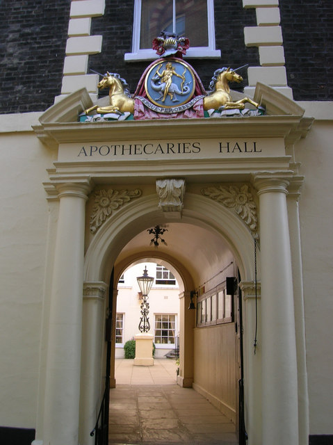 Apothecaries Hall entrance, Black Friars Lane EC4